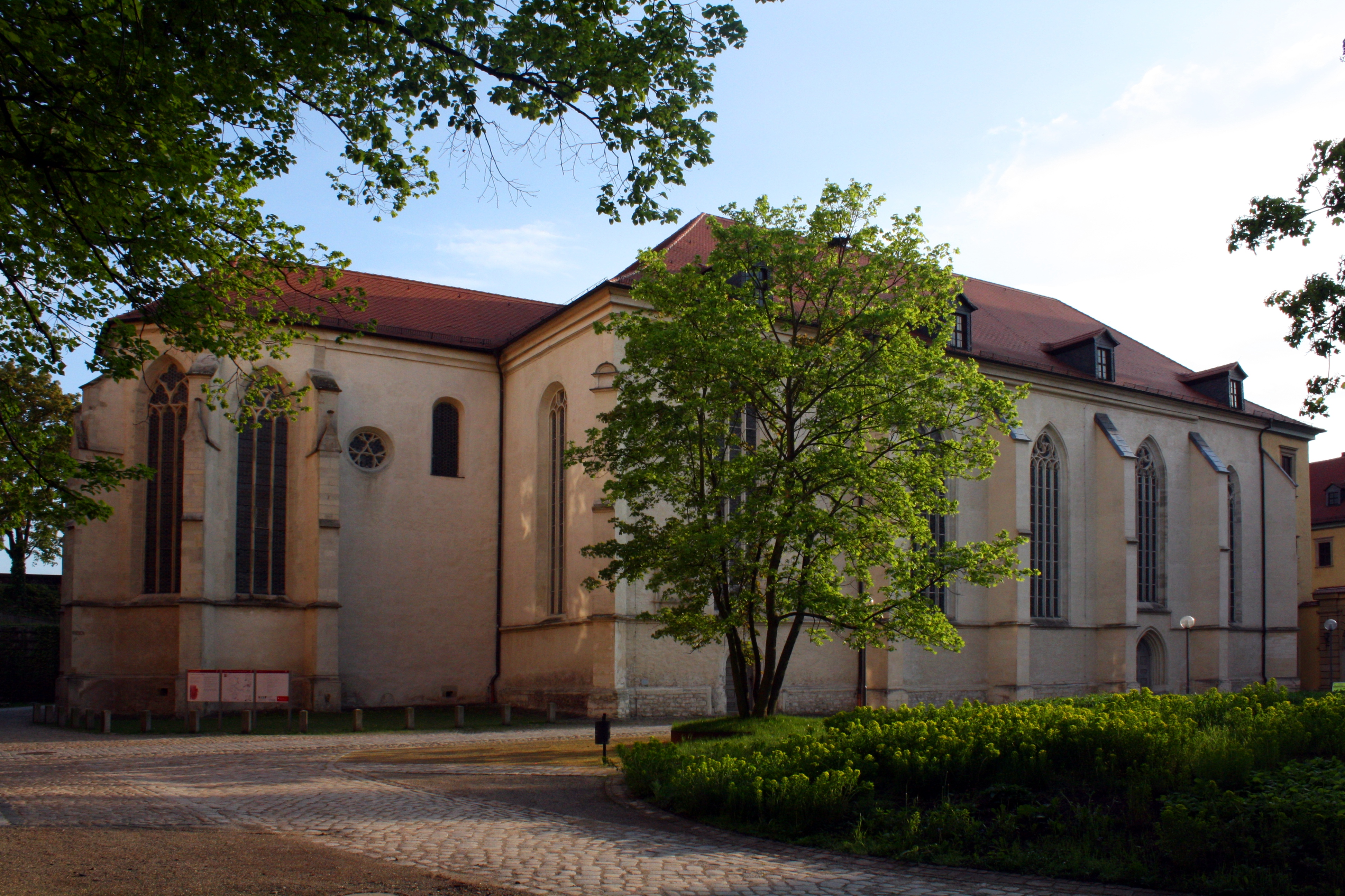 Cathedral in Zeitz (Saxony-Anhalt)